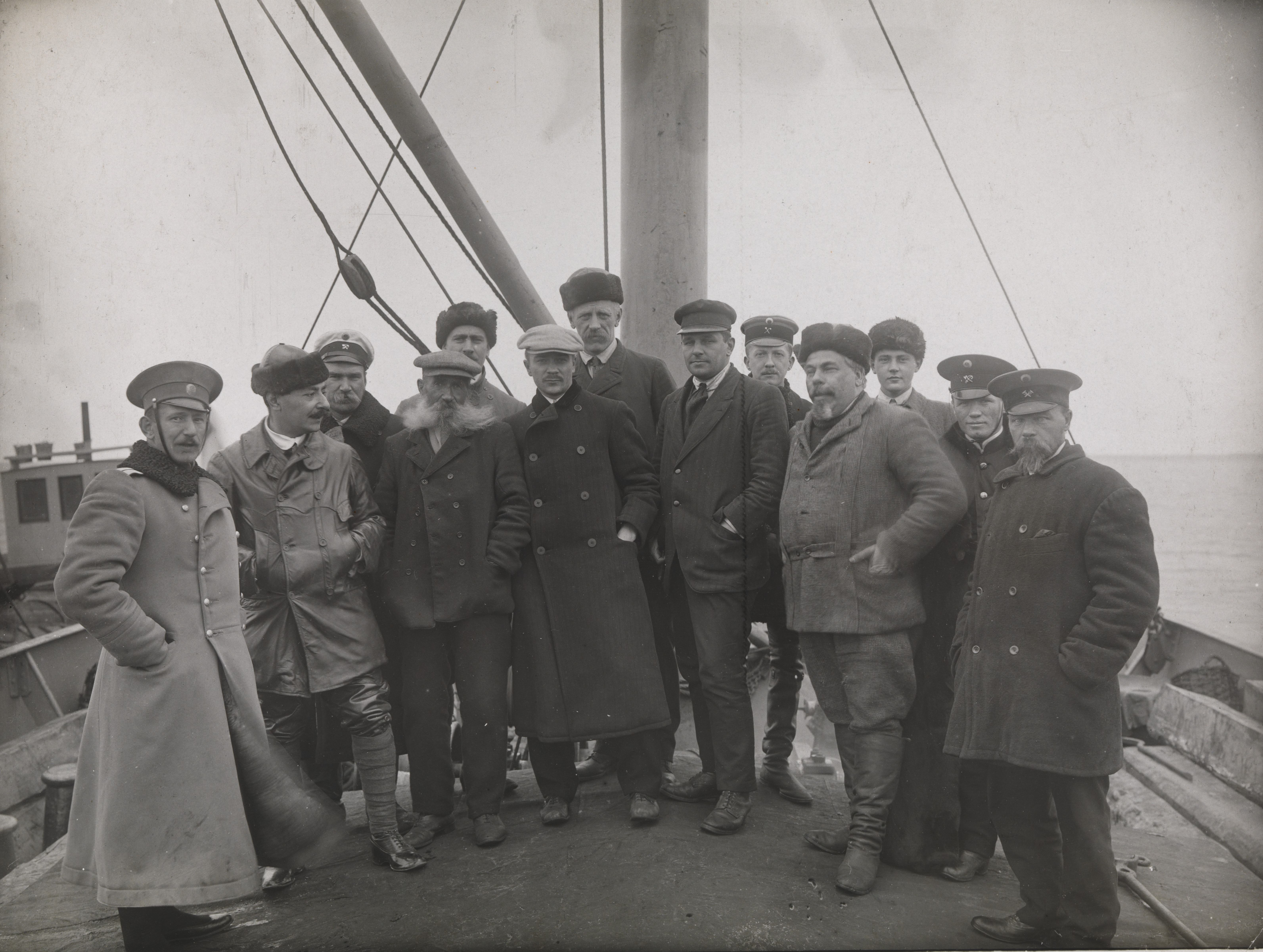 Meeting with officers from the Russian barges at the mouth of the Yenisei River. This was the end of the sea travel to Siberia. Among the people gathered: the crew from the «Correct», a Russian captain from the barge «Turukhansk», and the customs officers. Second from the left, Josef Gregorievitsj Loris-Melikov (secretary at the Russian legation in Norway); fourth for the left the ice pilot Hans Christian Johansen (Johannesen ); behind him, fifth from the left Jonas Lied, sixth from the left probably is Gunnar Christiansen, Lied's managing clerk; seventh from the left Fridtjof Nansen; eighth from the left Capt. Johan Samuelsen; tenth from the left, Stephan Vasilievitsj Vostrotin (gold mine owner from Yeniseisk). After a few days stay, Nansen, Loris-Melikov and Vostrotin continued their journey up the Yenisei River. The ship «Correct» with J. Lied and G. Christiansen unloaded their cargo from barges, and returned to Kristiania. One of the pictures from the journey to Siberia between Aug. 2 and Oct. 26, 1913. Fridtjof Nansen started his trans-Siberian travel on a freighter from Oslo to Yenisei. The journey went through parts of the Northeast Passage, which was to be opened as a shorter trading connection between Western Europe and the Far East.